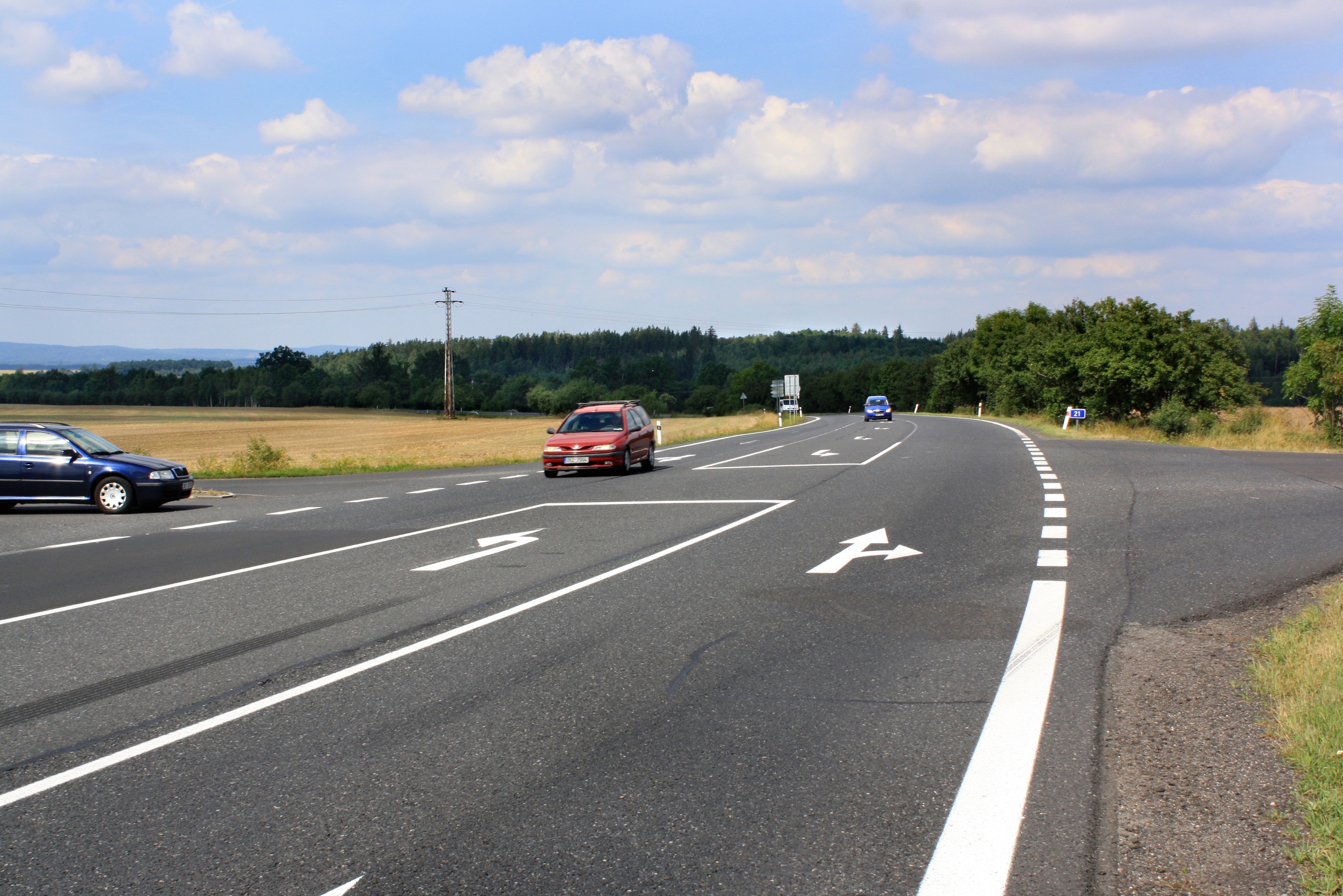 Road No 21 by Okrouhlá, Czech Republic